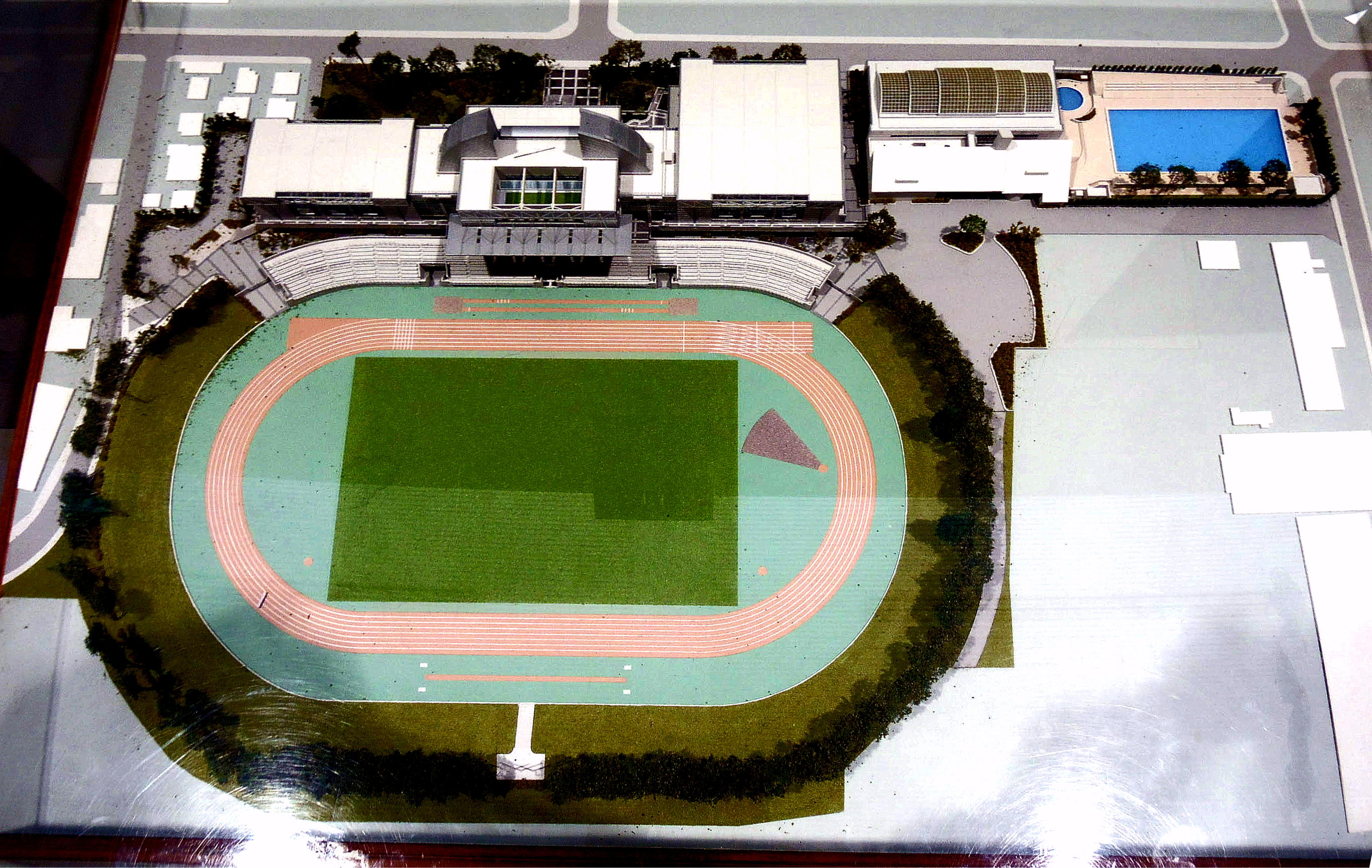 Models of Musashino athletics stadium.